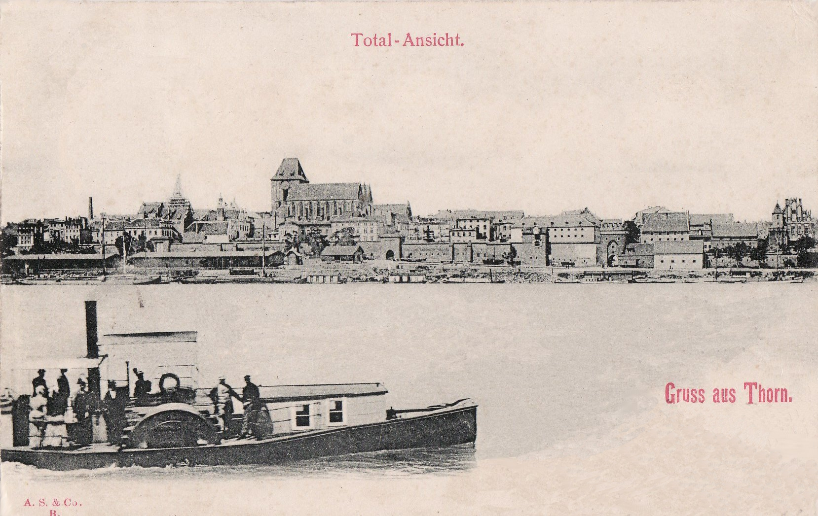 Postcard showing panoramic view of Toruń, notice Holy Ghost Curch tower is under construction (1893-1899)